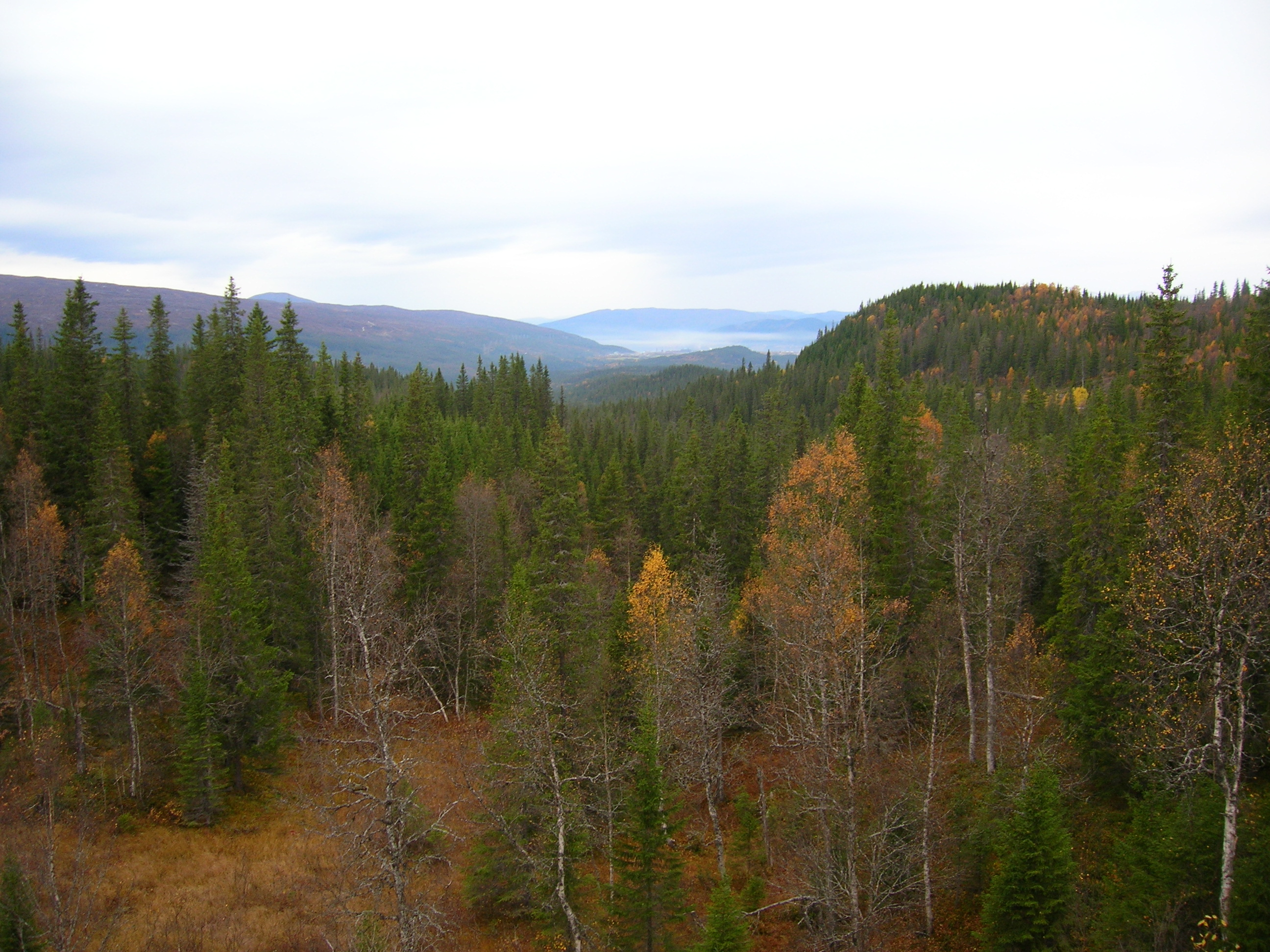 The fjord Ranfjorden seen from the mountains on European route E12 eastward to Sweden. The municipality of Rana is the northenmost area in Norway where the evergreen coniferous tree «Norway Spruce» grows naturally in wild areas untouched by humans. Occurences of the «Norway Spruce» north of Rana, is the result of human export and plantings. Rana municipality, county of Nordland, Norway. Photo 6 October 2007 with a Nikon Coolpix 5600 5,1 Megapixel camera.